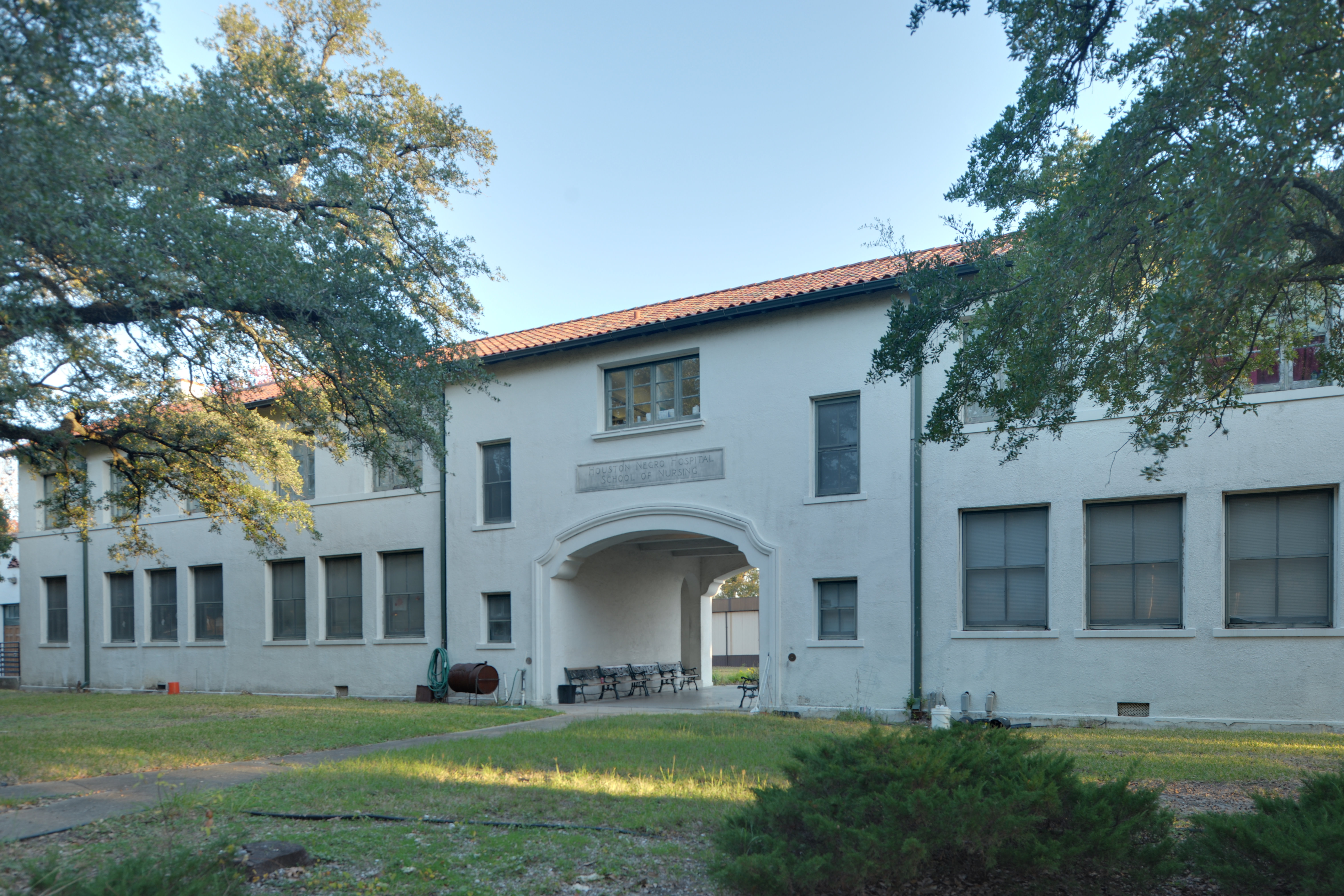 The Houston Negro Hospital School of Nursing on the corner of Holman Avenue and Ennis Street, Houston (Texas, USA) is listed in the National Register of Historic Places, United States Department of the Interior.